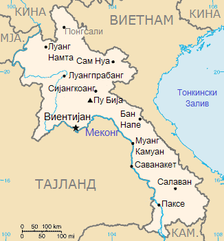 Map of Laos in Macedonian.